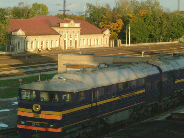 Narva Railwaystation, Narva 2006